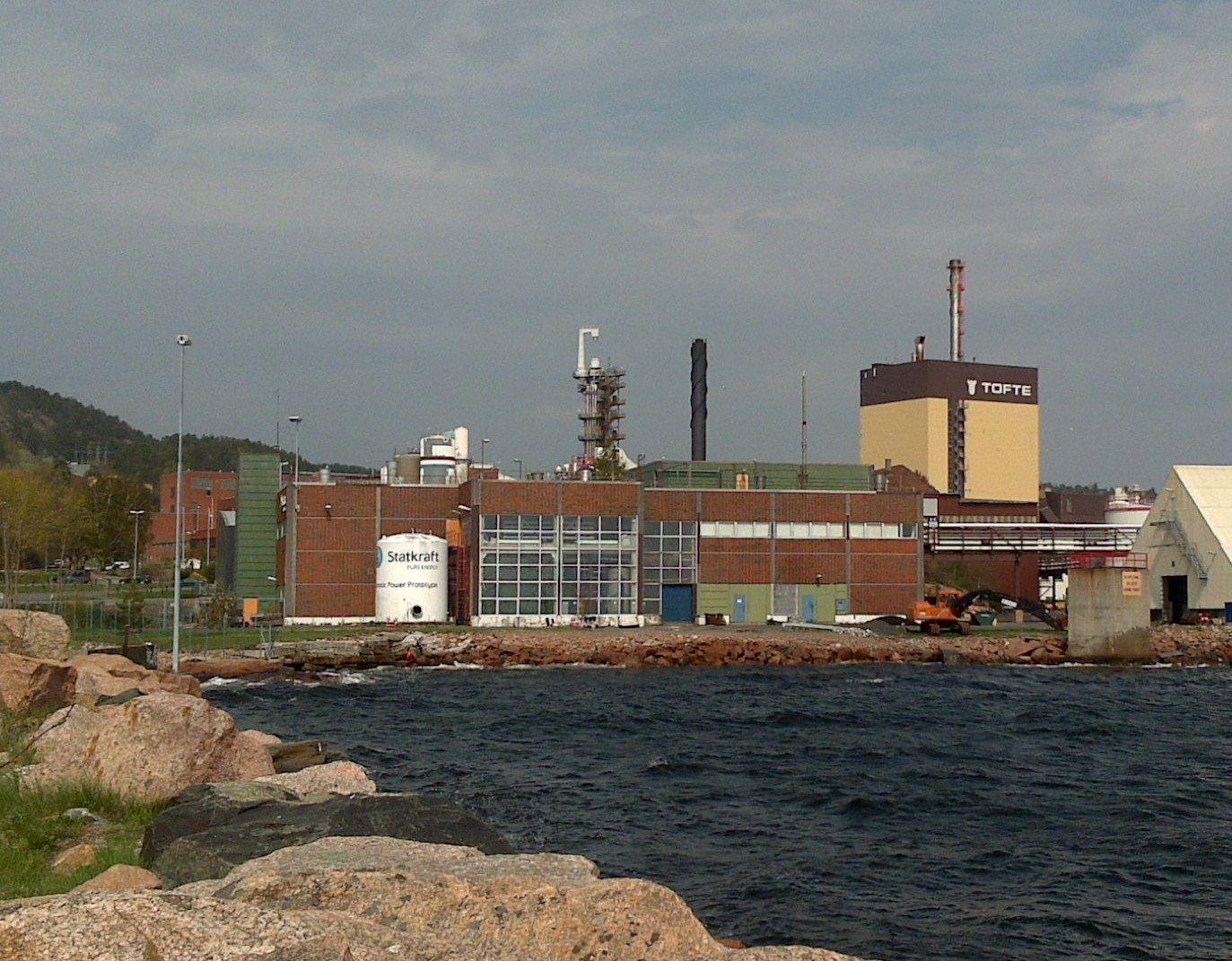 World's first osmosis power plant at Tofte (Hurum), Norway. The osmosis power plant, run by Statkraft ASA, is the brown building.